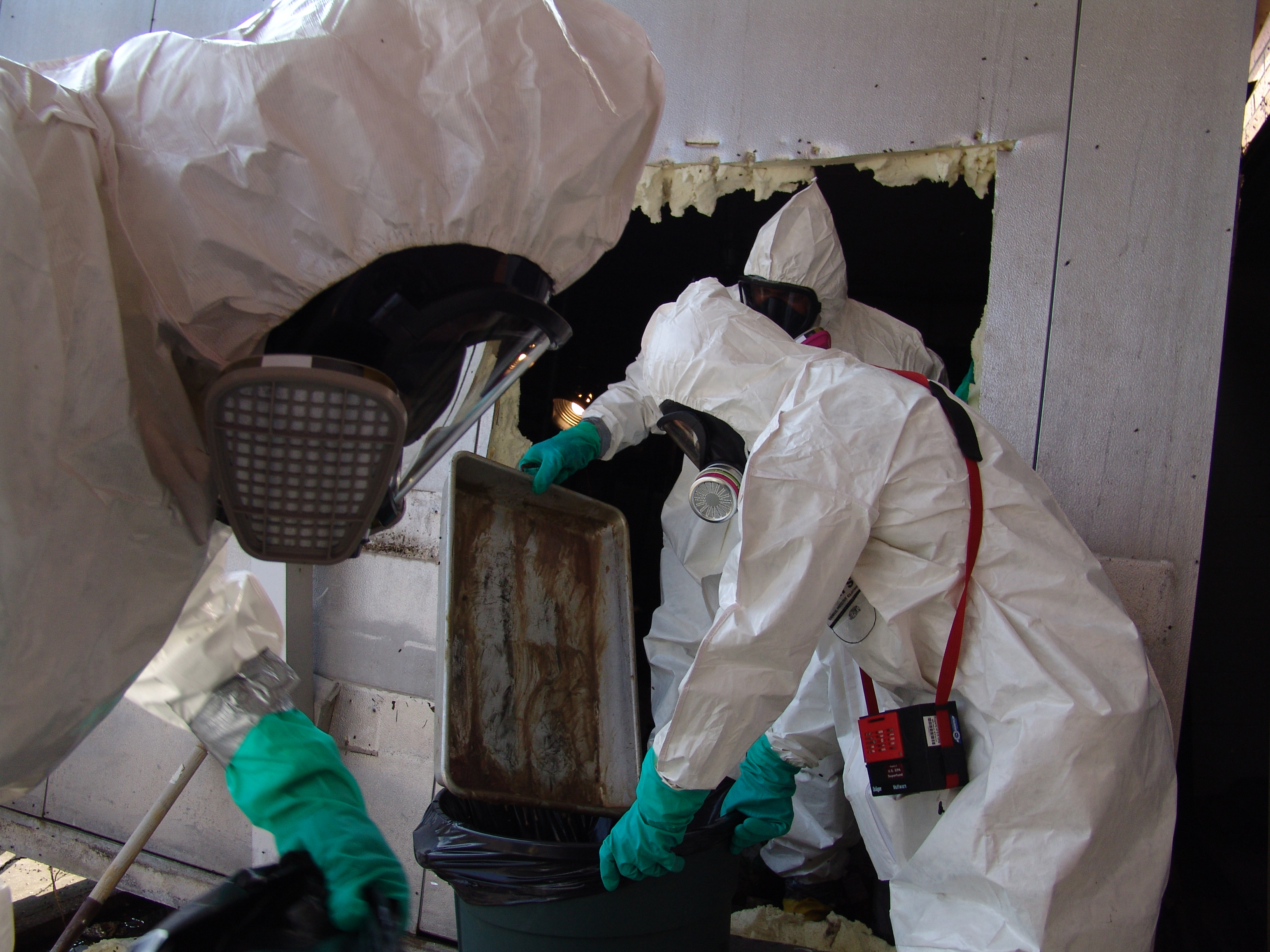 Waveland, MS, September 30, 2005 -- FEMA/EPA Hazardous Materials Team clean up environmental health hazard. Members of a EPA/FEMA Hazardous Materials team, remove rotten meat from an elementary school freezer that lost power during Hurricane Katrina. Photo by John Fleck/FEMA